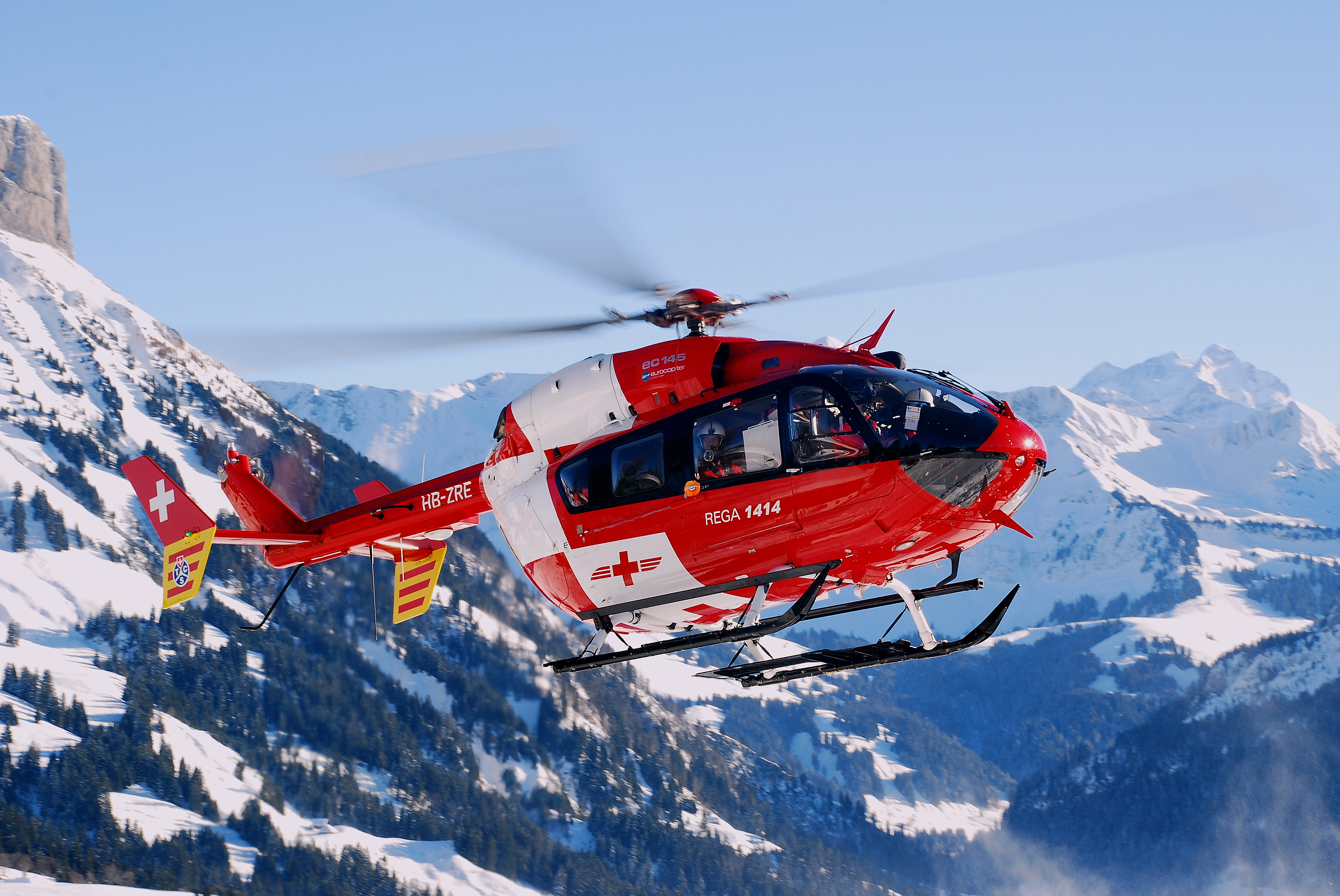 Swiss rescue helicopter in action. Model BK 117-C2 (EC-145) of Rega with registration "HB-ZRE".